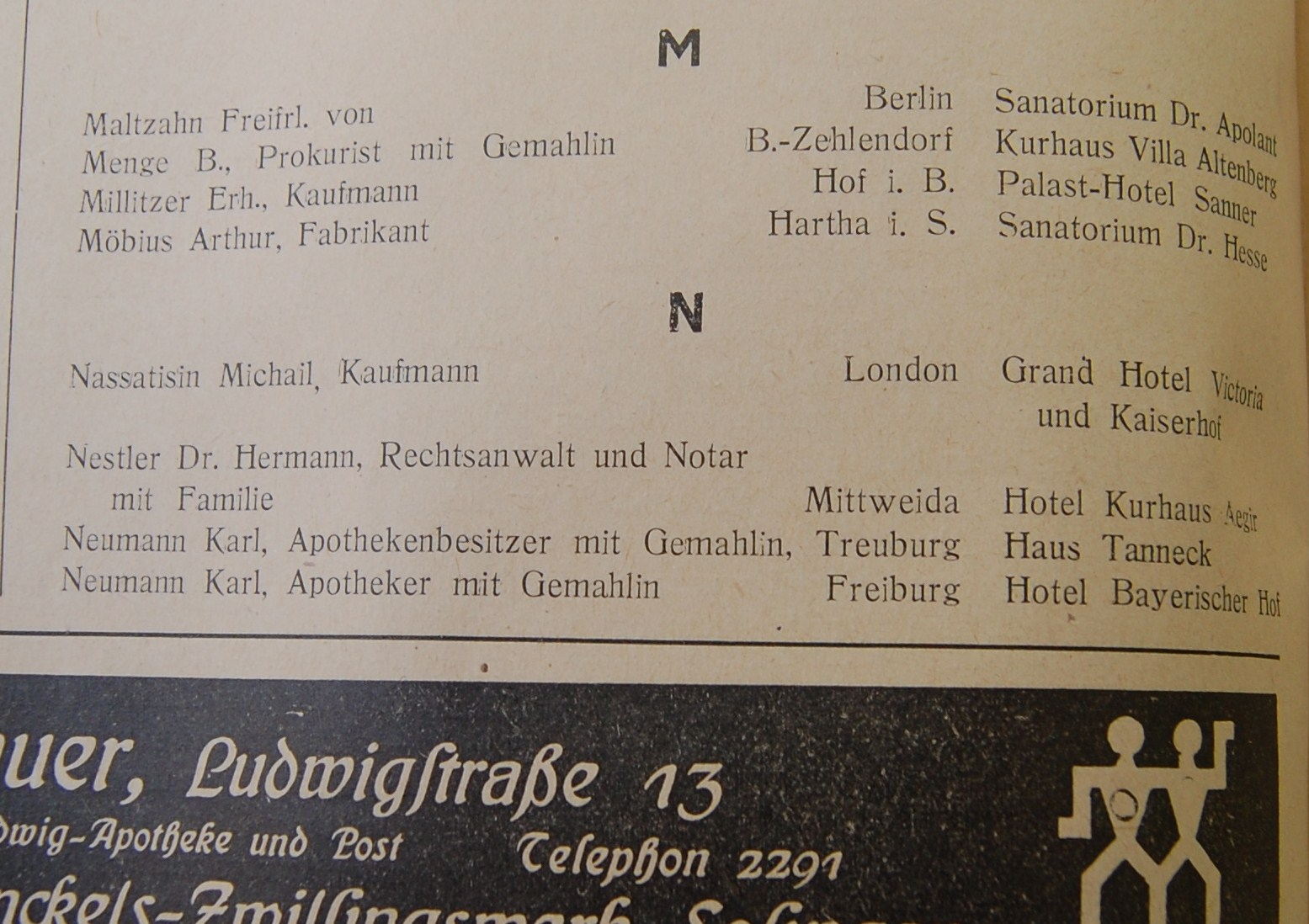 Spa guests record of Bad Kissingen from August 5, 1931, with the name of Michael Nassatisin (1876-1931), merchant in London